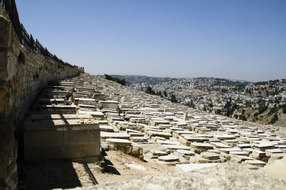 View of the Jewish Cemetary on the Mount of Olives